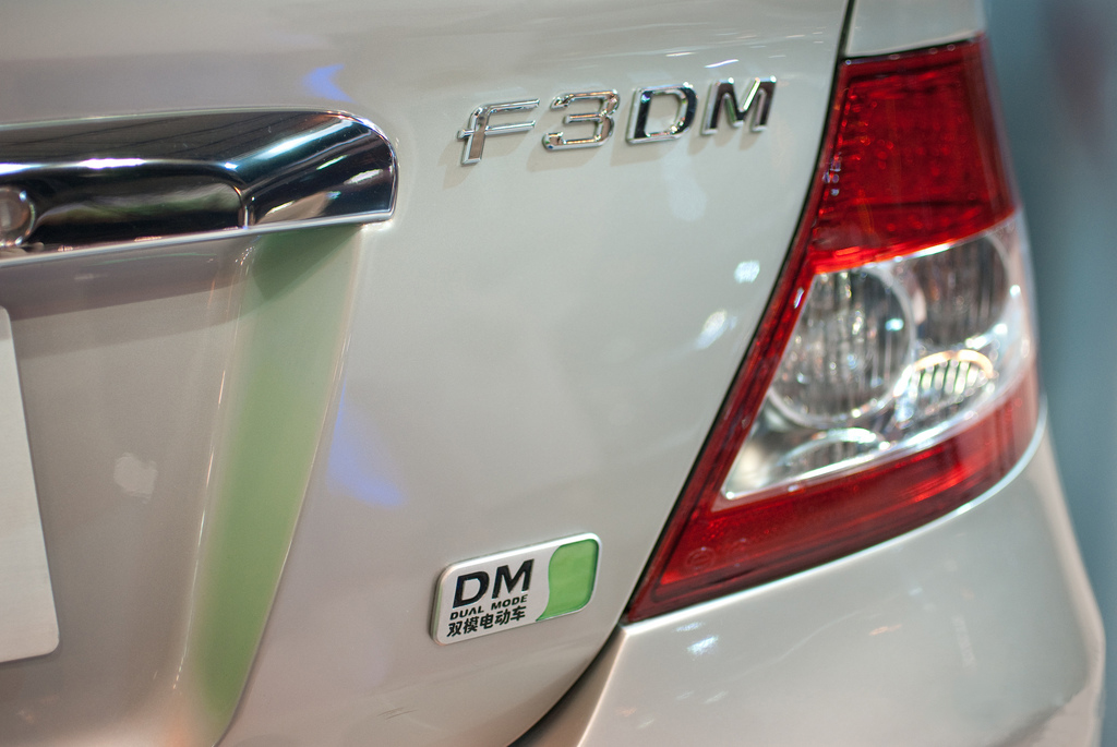 Badging of the plug-in hybrid (dual mode) BYD F3DM exhibited at the Salón del Vehículo Ecológico y la Movilidad Sostenible (Spain) 2010